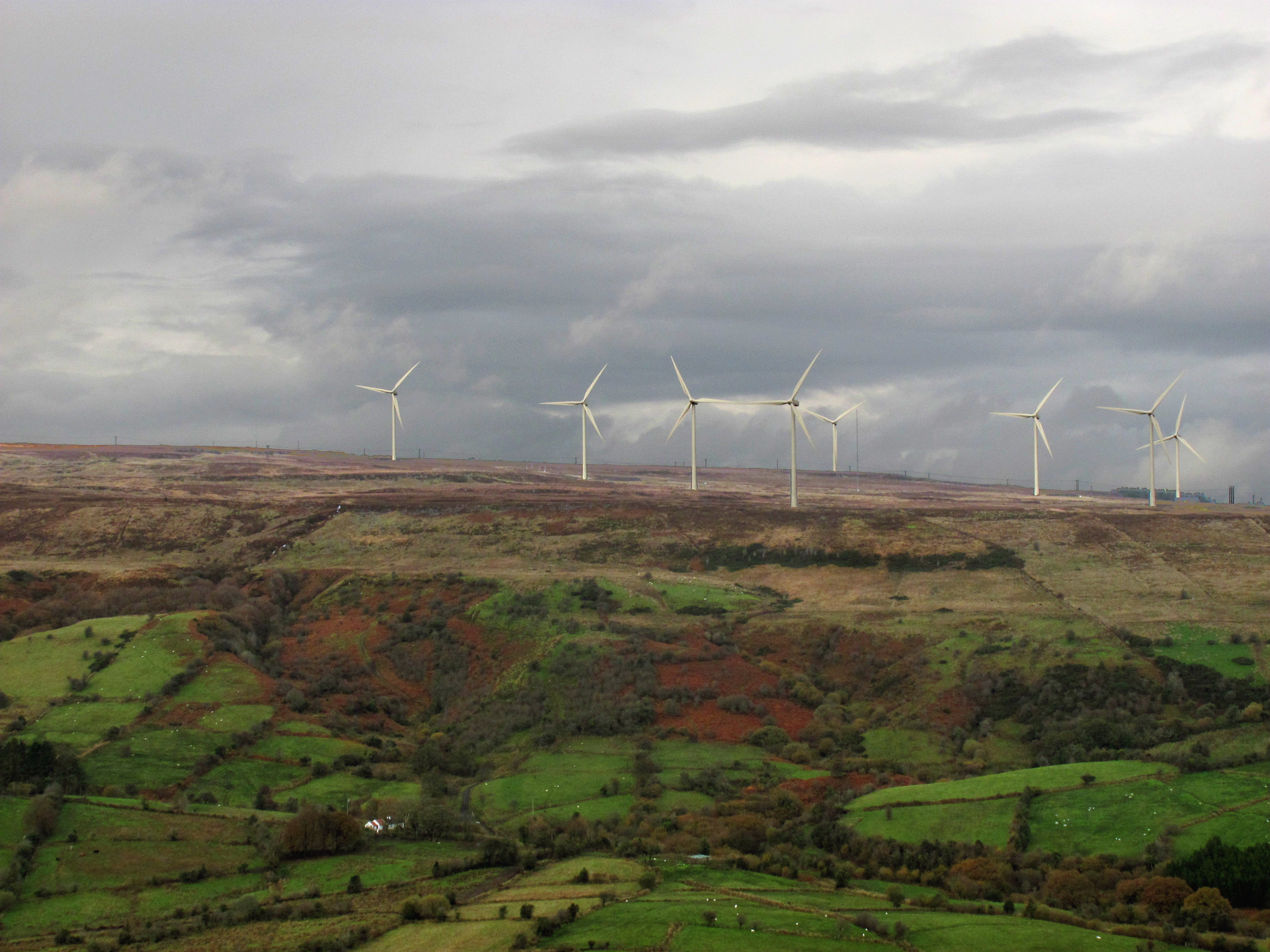 Spion Kop Windfarm from across the valley